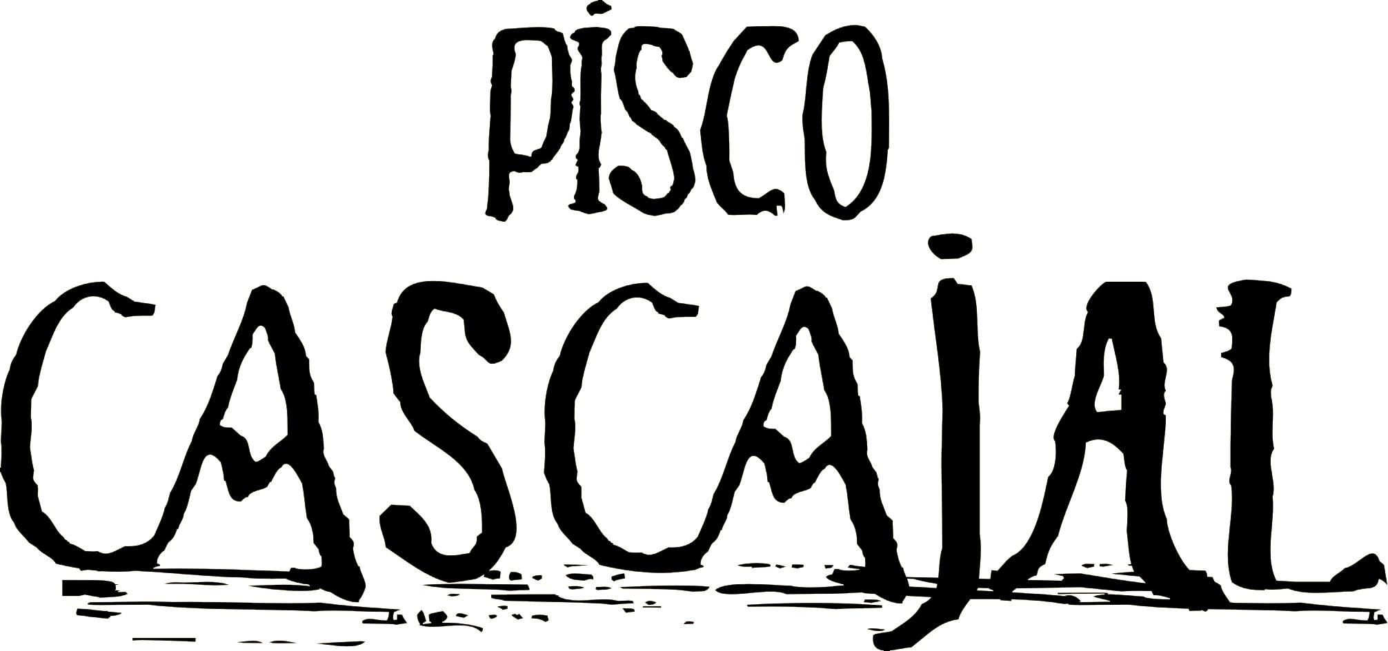 Pisco Cascajal Logo